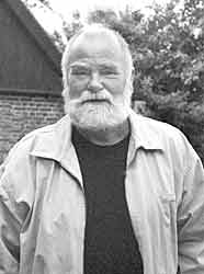 Peter Makolies while an exhibition in Ostseebad Wustrow on June 13, 2003